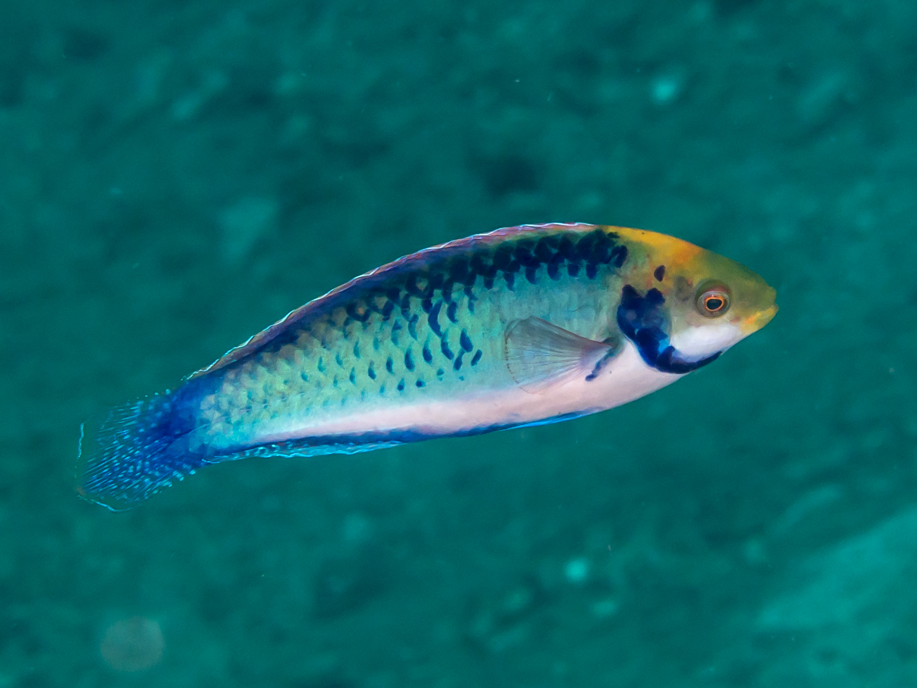 Lembeh, Indonesia - Solor fairy wrasse (Cirrhilabrus solorensis)